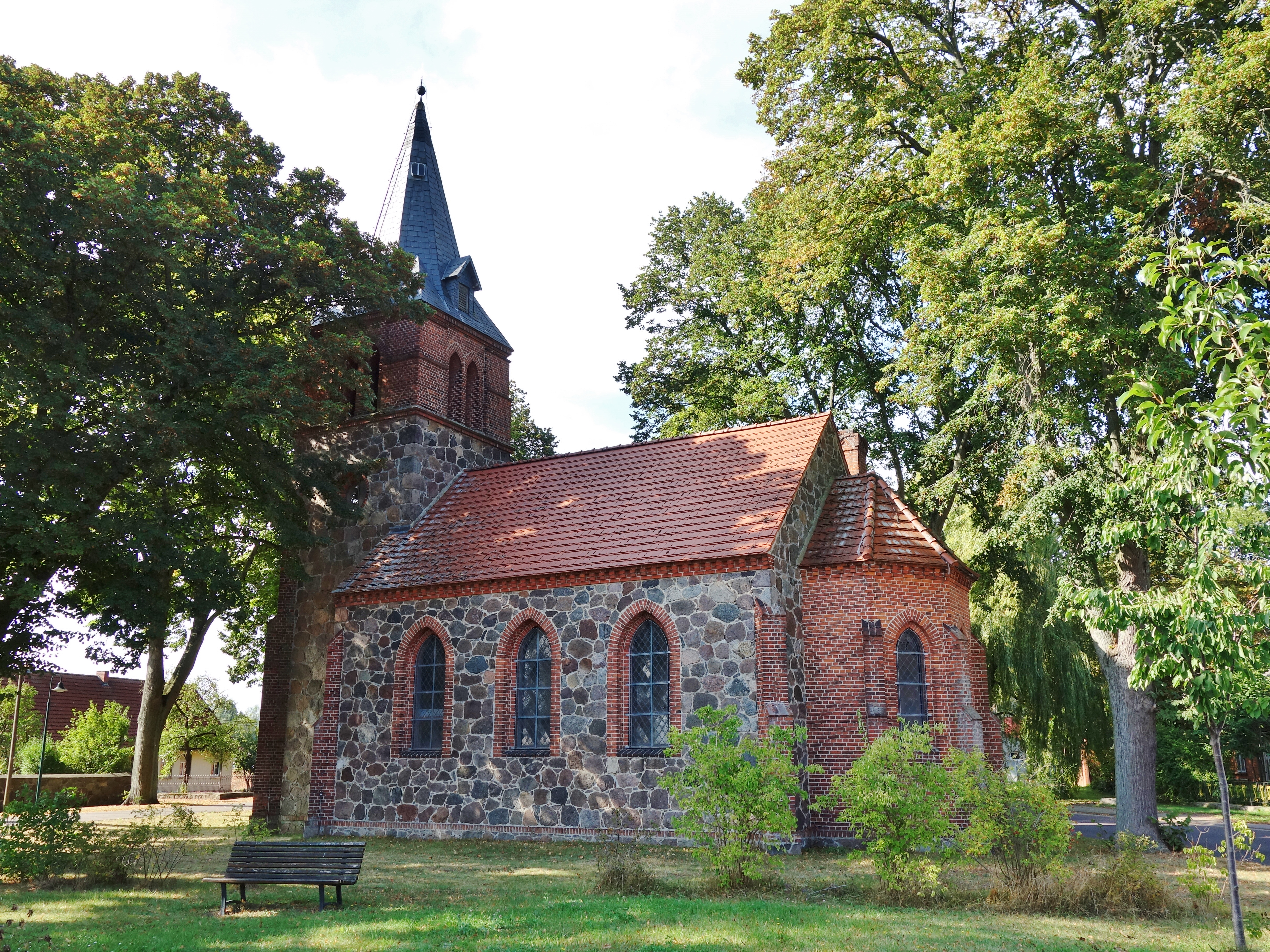 South-eastern view of church in Niemerlang, Wittstock municipality, Ostprignitz-Ruppin district, Brandenburg state, Germany